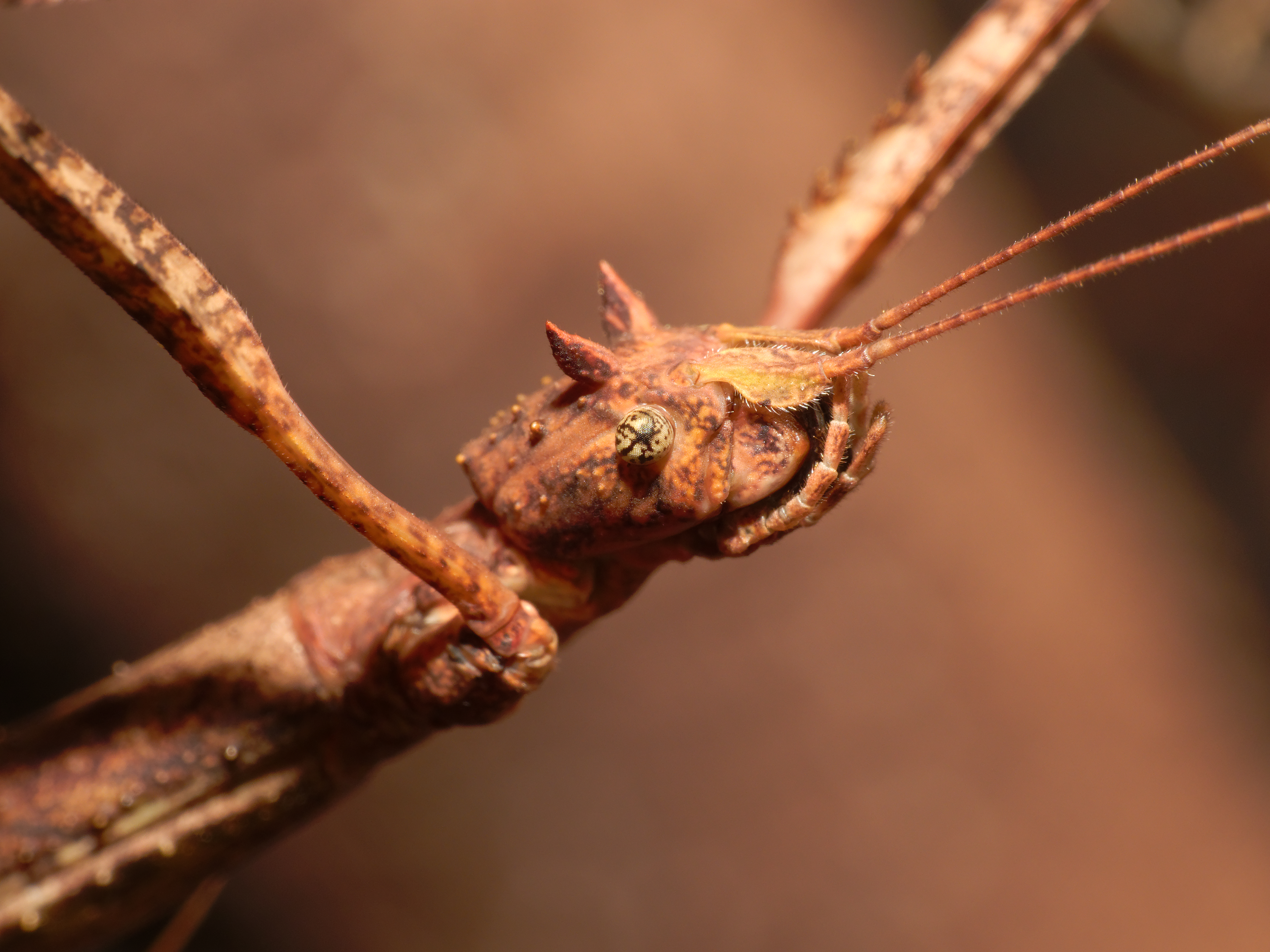 Phasme (Phasmatodea sp.). Image prise avec la bonnette Raynox DCR-250.